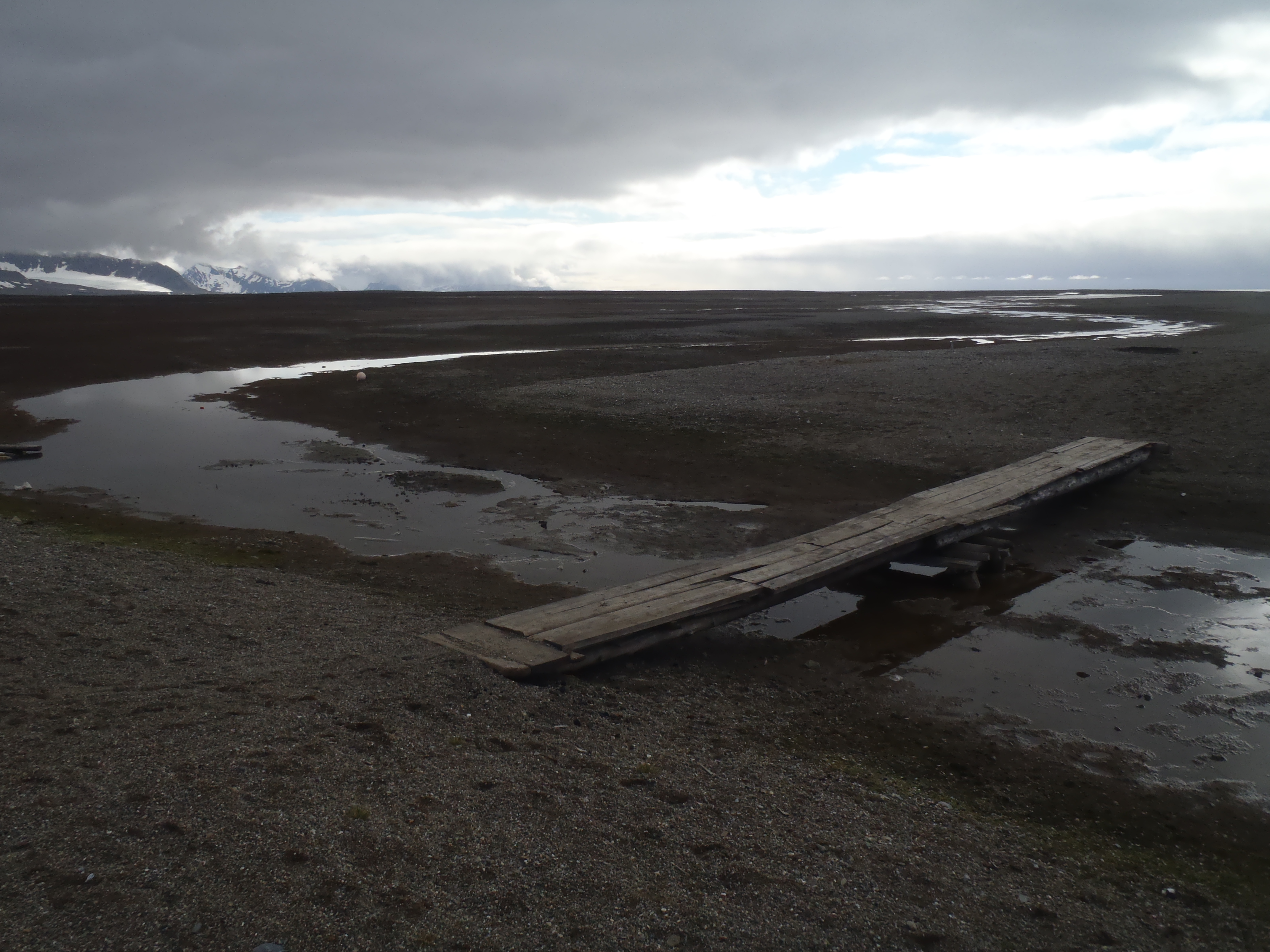 Kaffiøyra, Spitsbergen, viewed from Nicholaus Copernicus University (Toruń, Poland) Polar Station